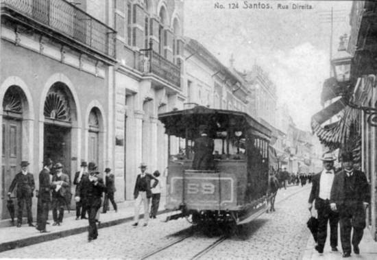 Tram 59.